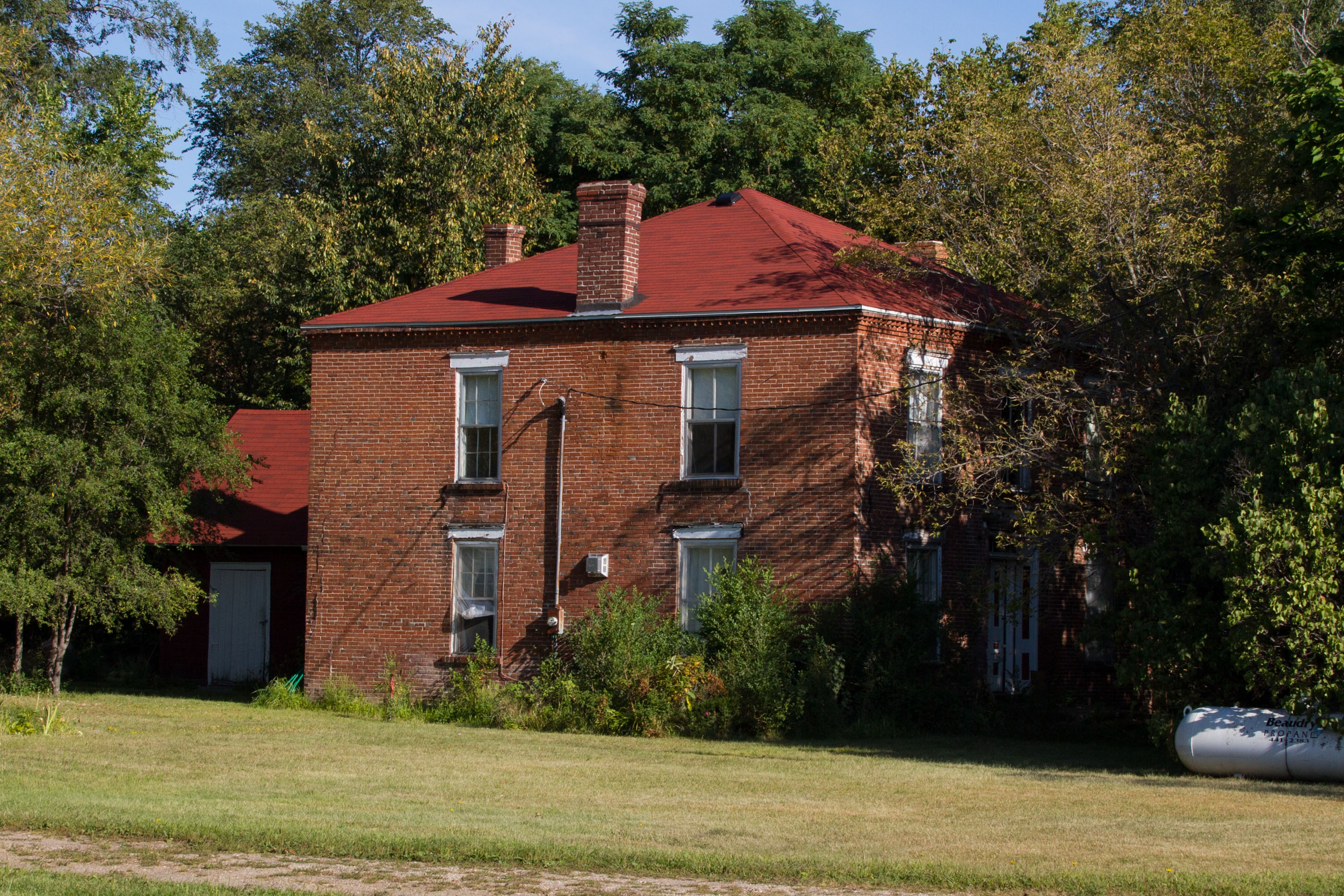 David Hanaford Farmstead, near Monticello, Minnesota, USA.